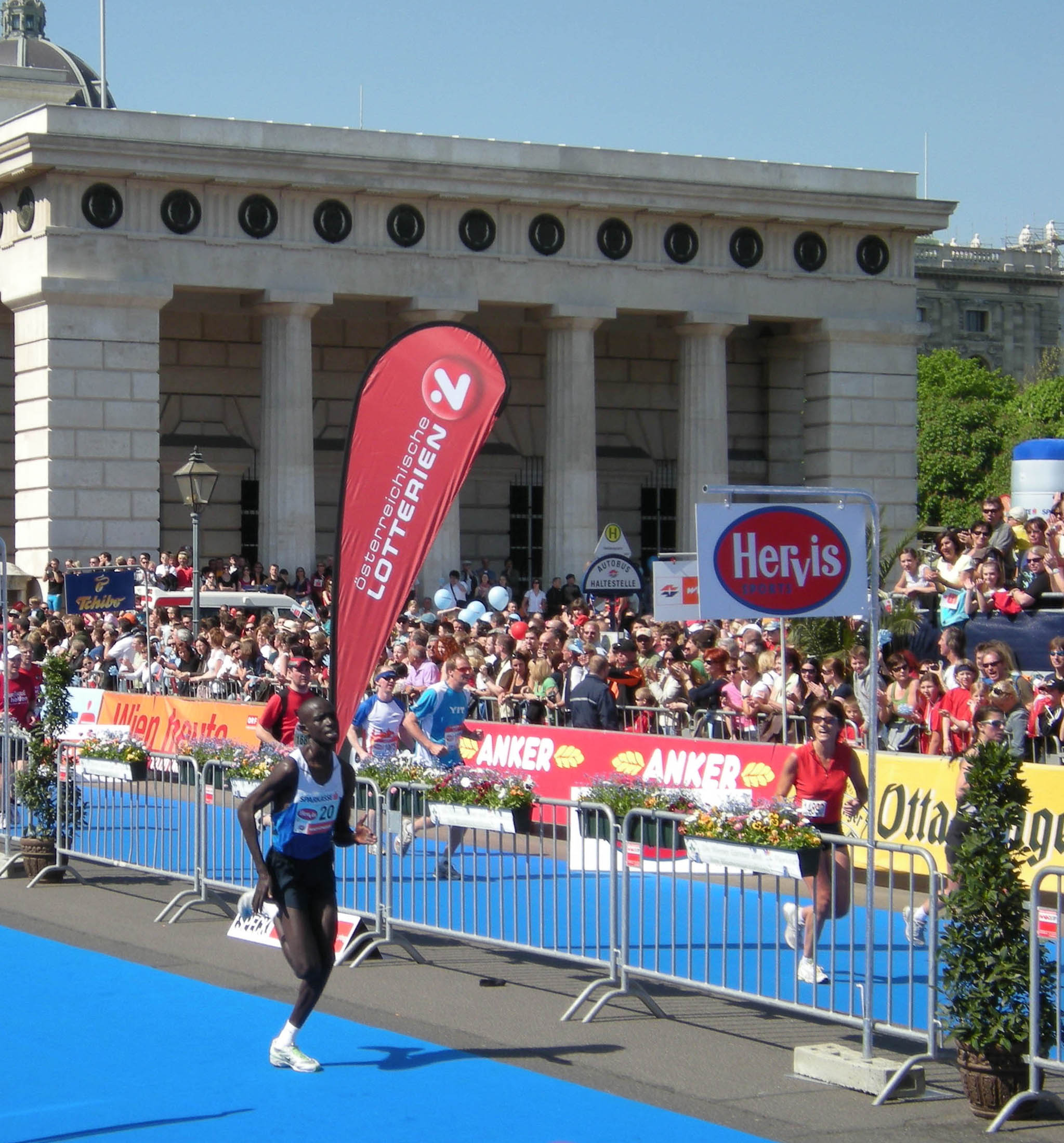 Vienna City Marathon 2009; on details, see filename or official Note: Camera time is set on UTC, which is local time -2, and might be wrong ~ +/-1_min.